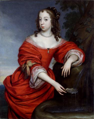 Portrait of Albertine Agnes van Oranje-Nassau (1634-1696)